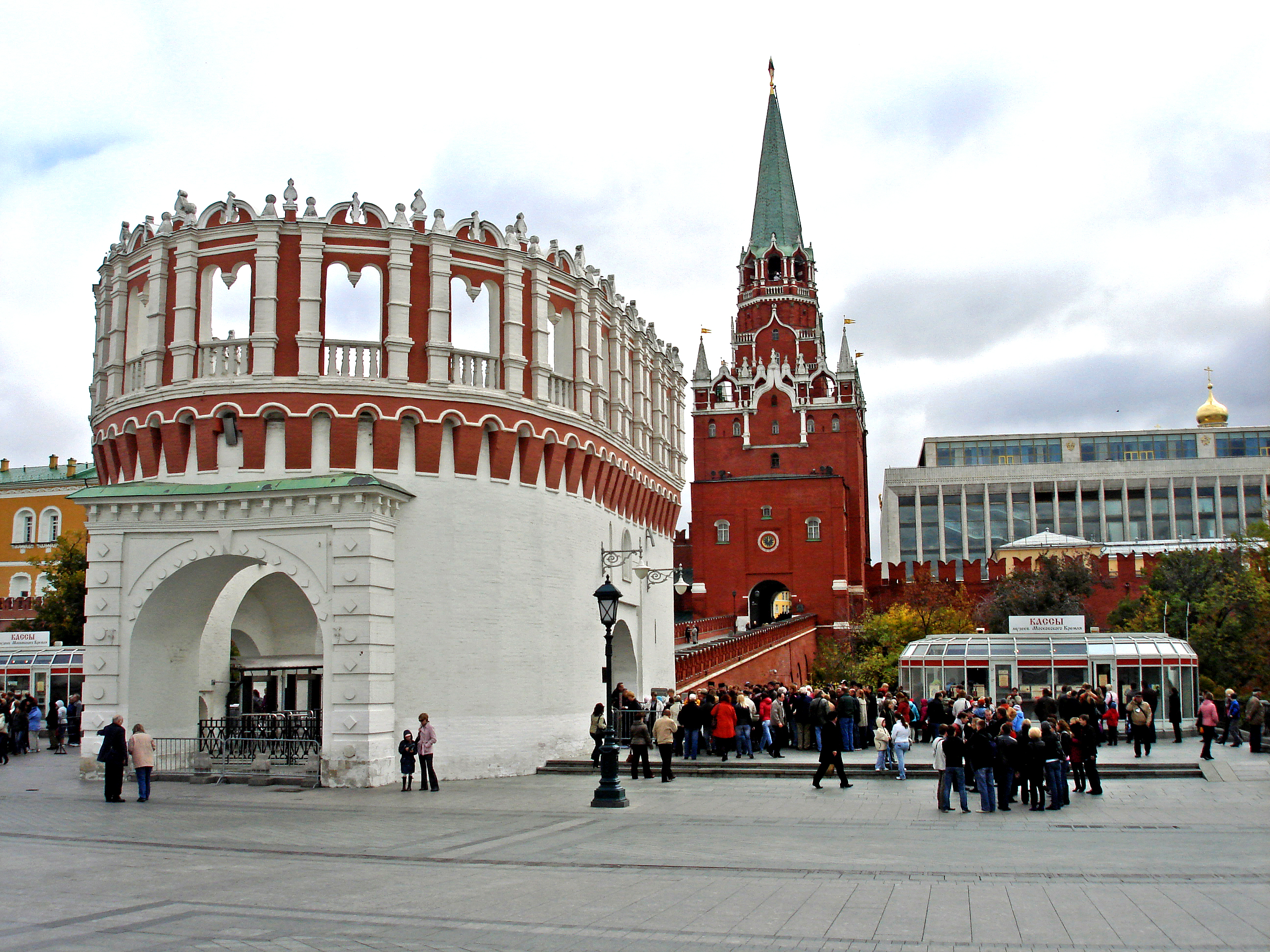 PLEASE, NO invitations or self promotions, THEY WILL BE DELETED. My photos are FREE to use, just give me credit and it would be nice if you let me know, thanks. Kutafia Tower in front of the Kremlin, the way we left, with the Troitskaya Tower in back (highest tower of the Moscow Kremlin).